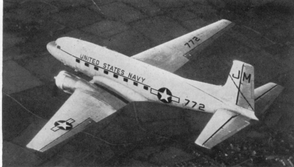 A U.S. Navy Douglas R4D-8 Skytrain (BuNo 50772, after 1962 C-117D) from transport squadron VR-24 in flight. VR-24 operated a detachment at RAF Hendon (Fleet Aircraft Service Squadron 200) until 1956, when it moved to RAF Blackbushe, and then to RAF West Malling in 1960. This aircraft was at Blackbushe until June 1957.[1]